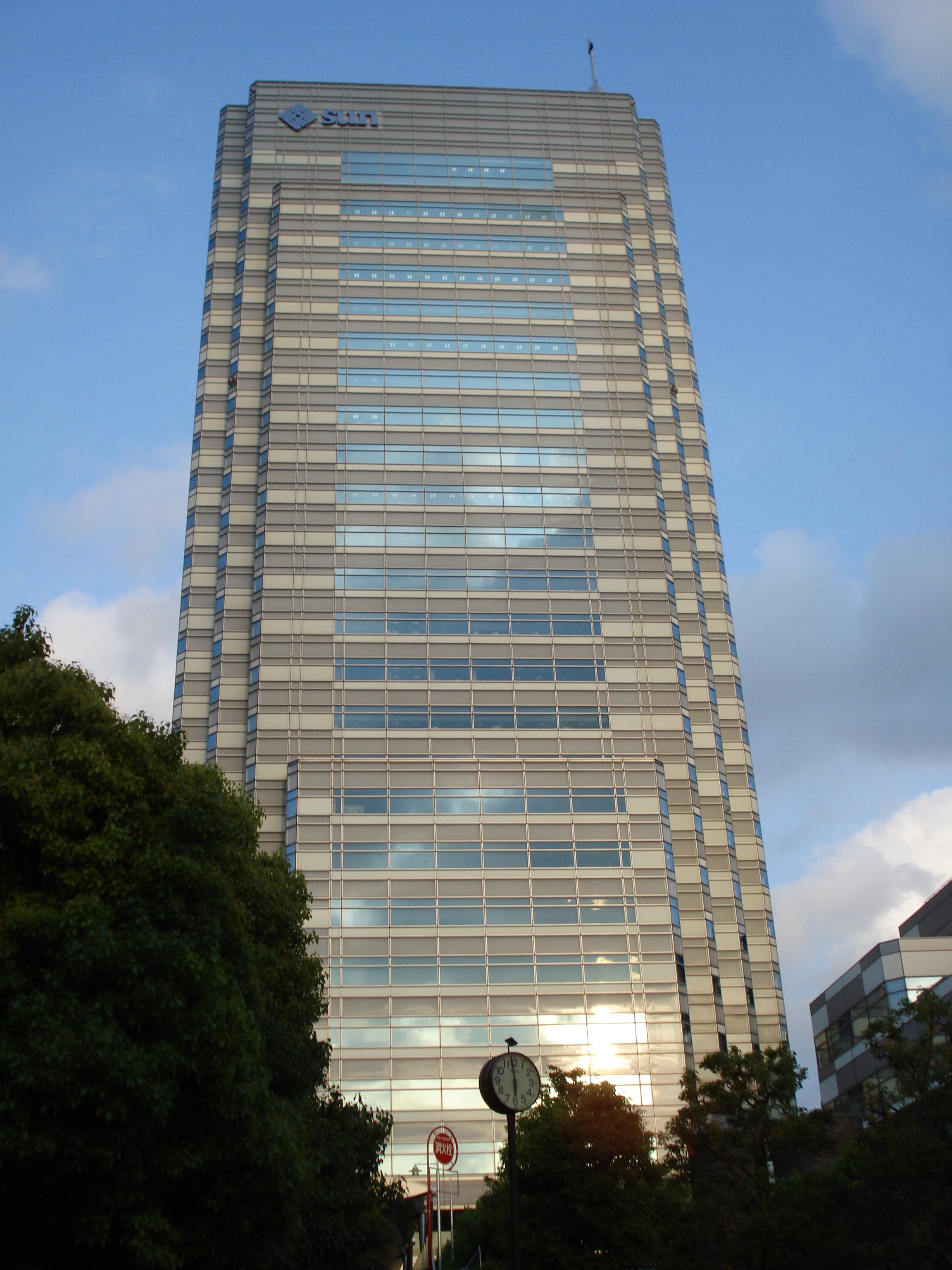 Building